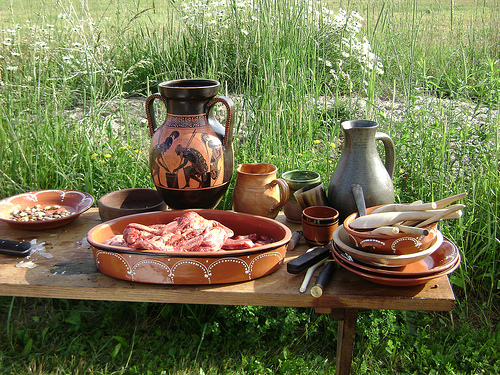 recreated 5th c BCE cooking wares